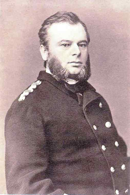 Eduard Karl Emanuel von Jachmann (March 2, 1822 – October 21, 1887) was a German vice admiral (Vizeadmiral).